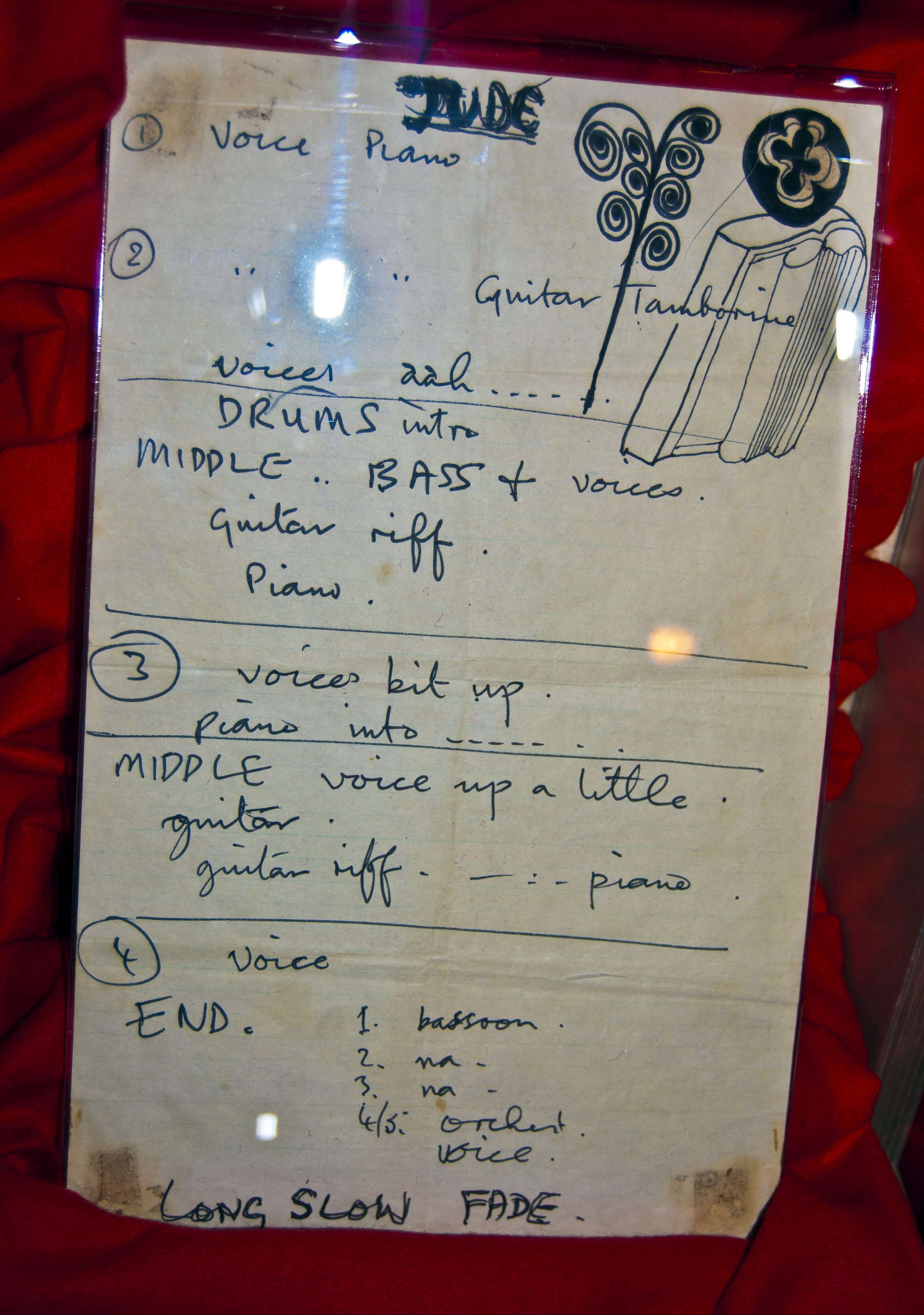 A memo which is referred as "Paul McCartney's 'Hey Jude' lyrics"